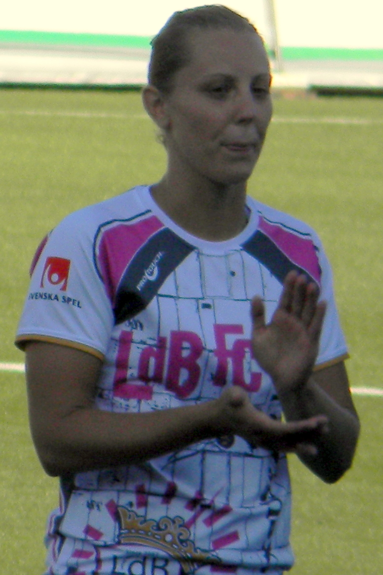 Emma Wilhelmsson, a swedish player from LdB FC Malmö